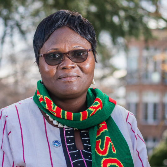 Chosen as an International Women of Courage in March 2020. Awards presented on 4 March 2020 - Claire Ouedraogo